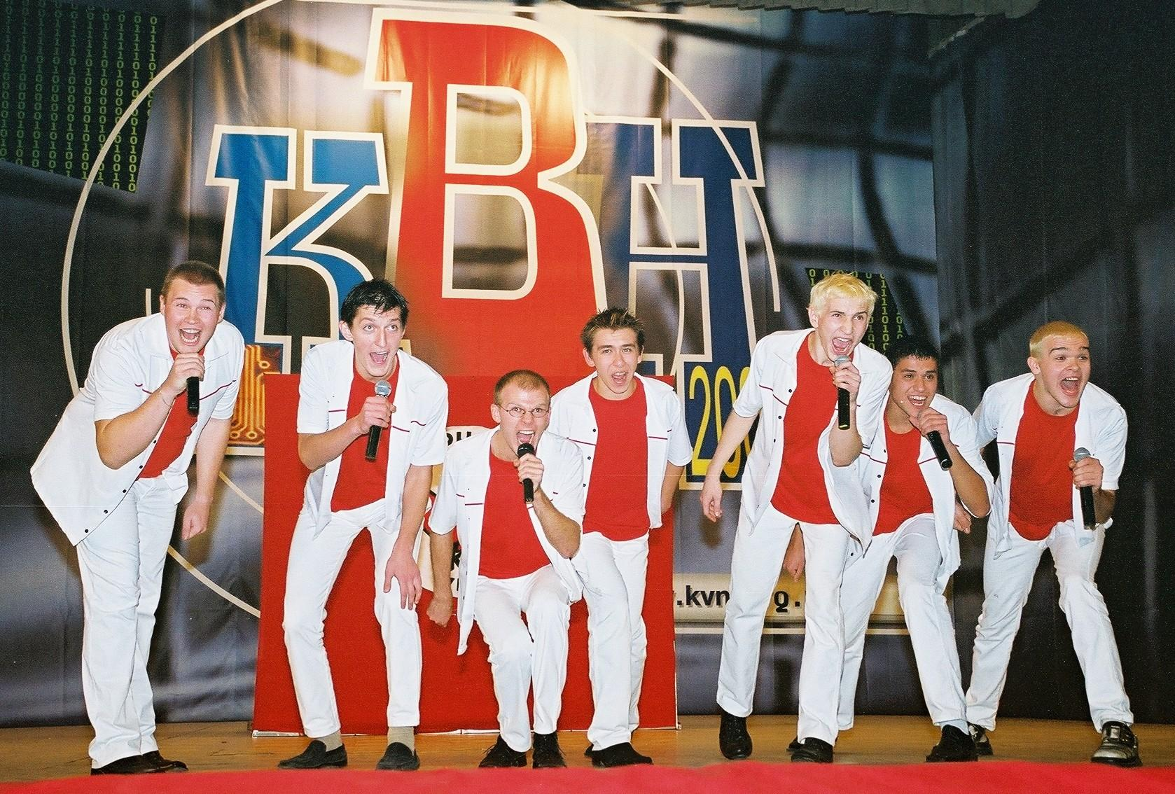 Чемпионат КВН Украины